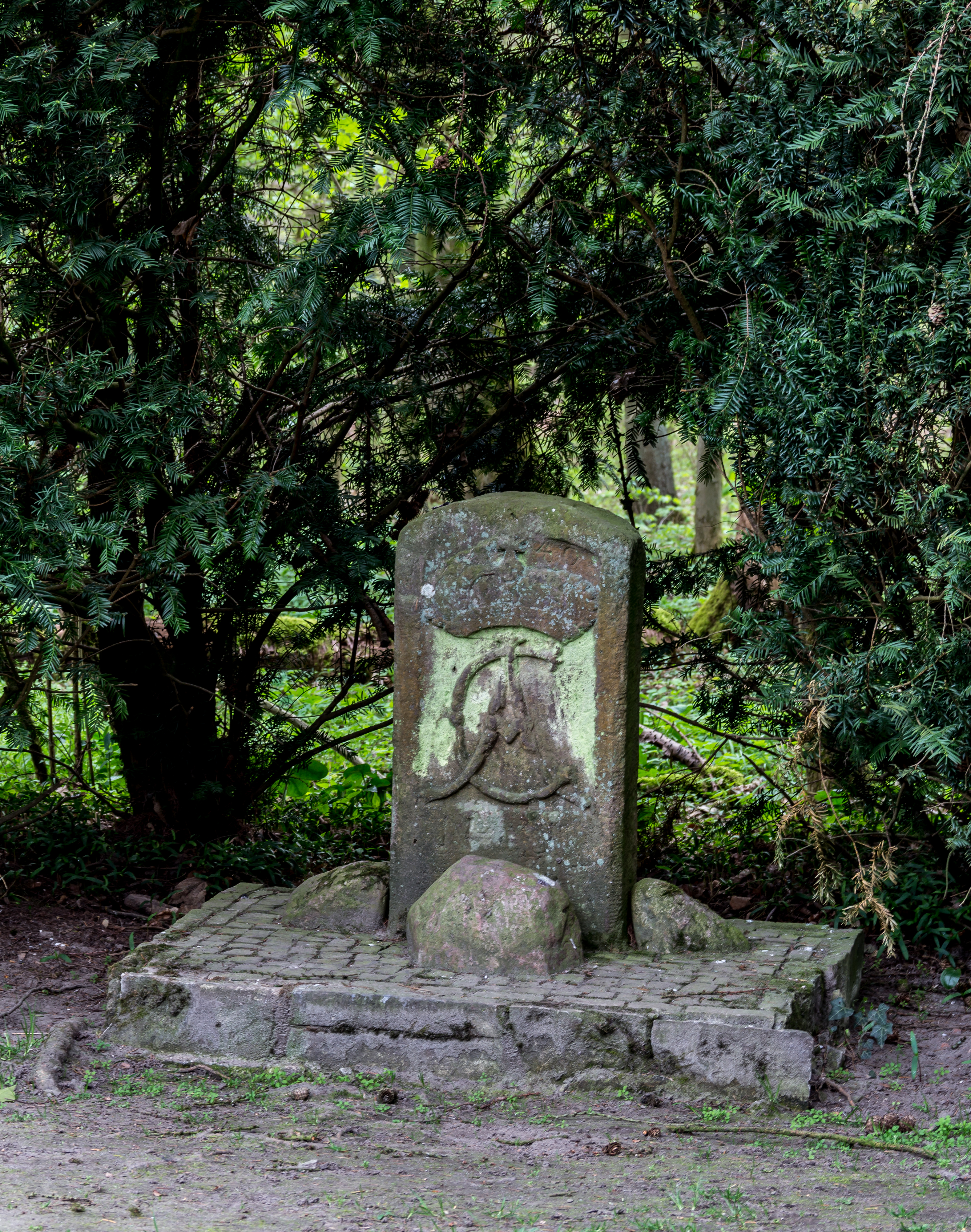 Baroque landmark in the Wolbecker Tiergarten in Wolbeck, Münster, North Rhine-Westphalia, Germany (The landmark is located at the border of the nature reserve “Wolbecker Tiergarten”.) This image shows a heritage building in Germany, located in the North Rhine-Westphalian city Münster.